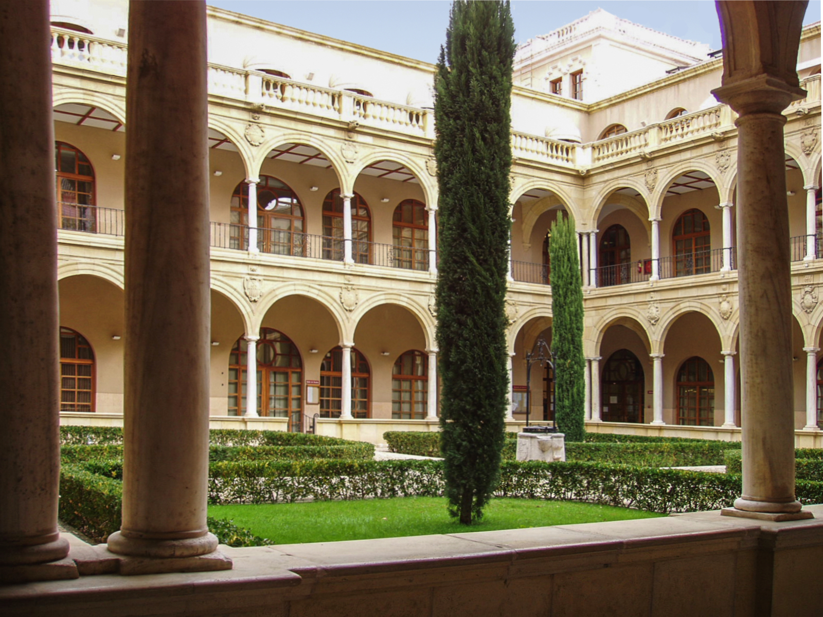 Murcia